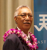 Premier Toke Talagi of Niue at the East-West Center in Honolulu, Hawaii.